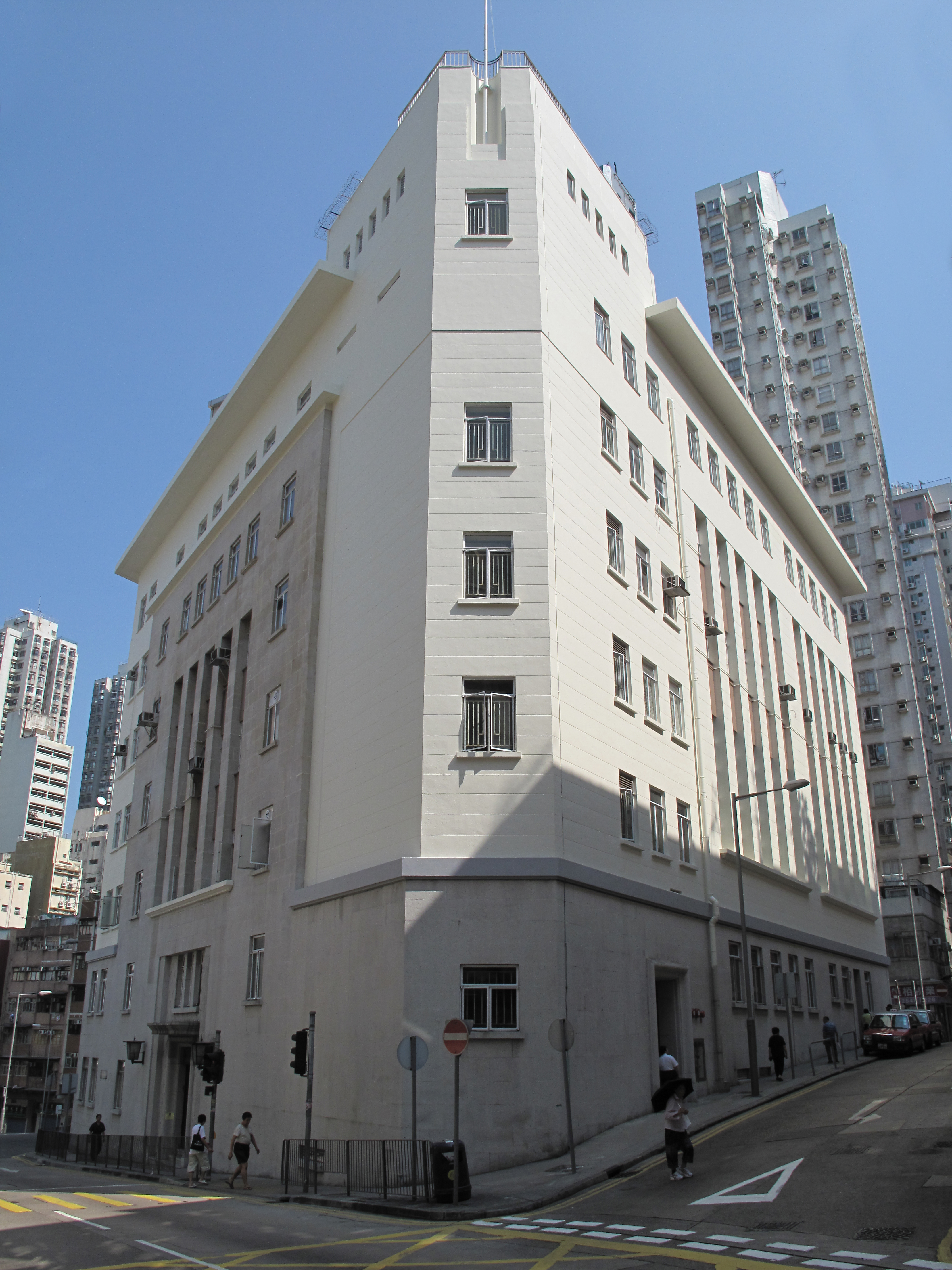 Photo of Western Magistracy